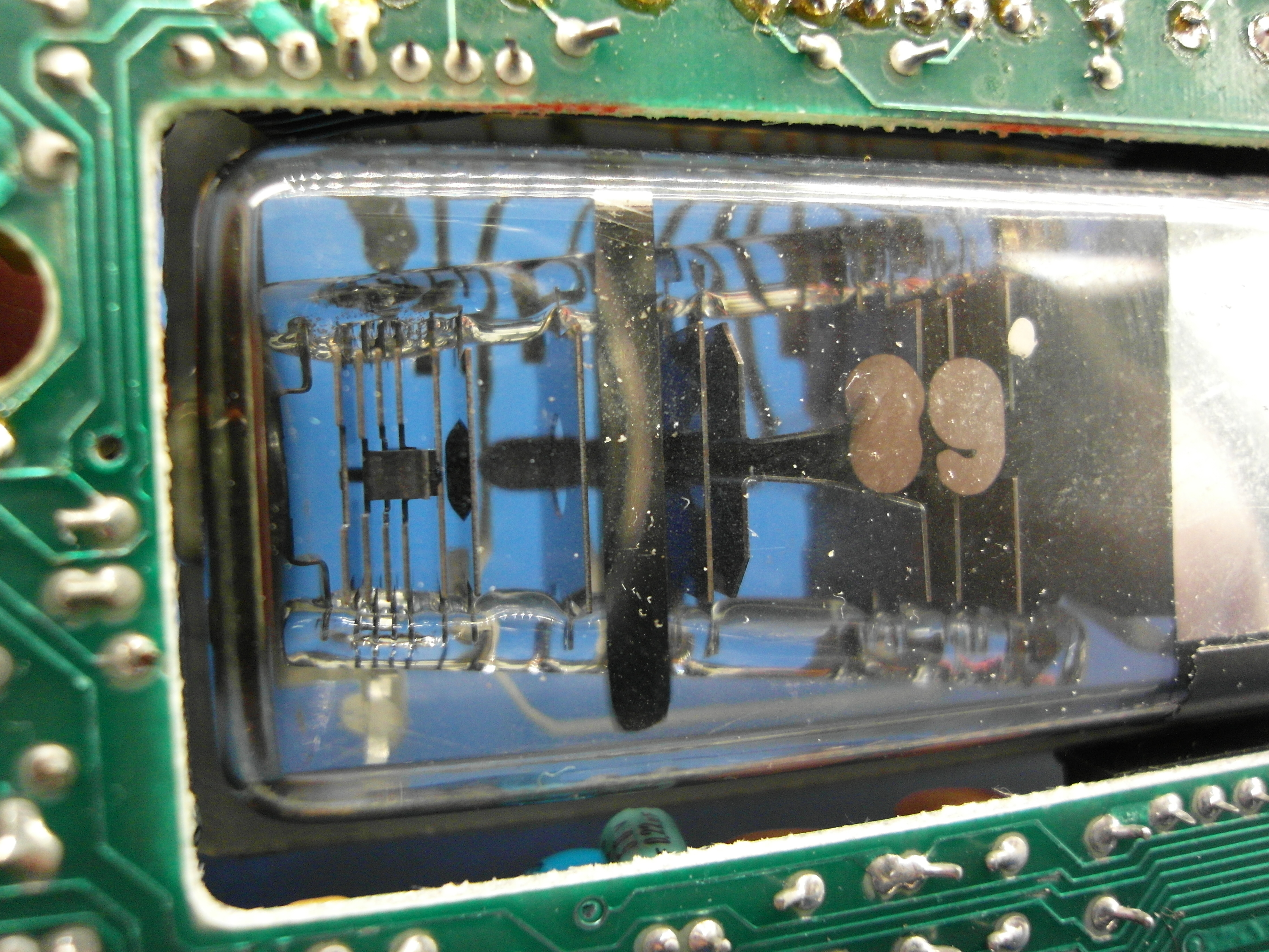 The electrostatic deflection CRT used in the Sinclair FTV1 portable TV